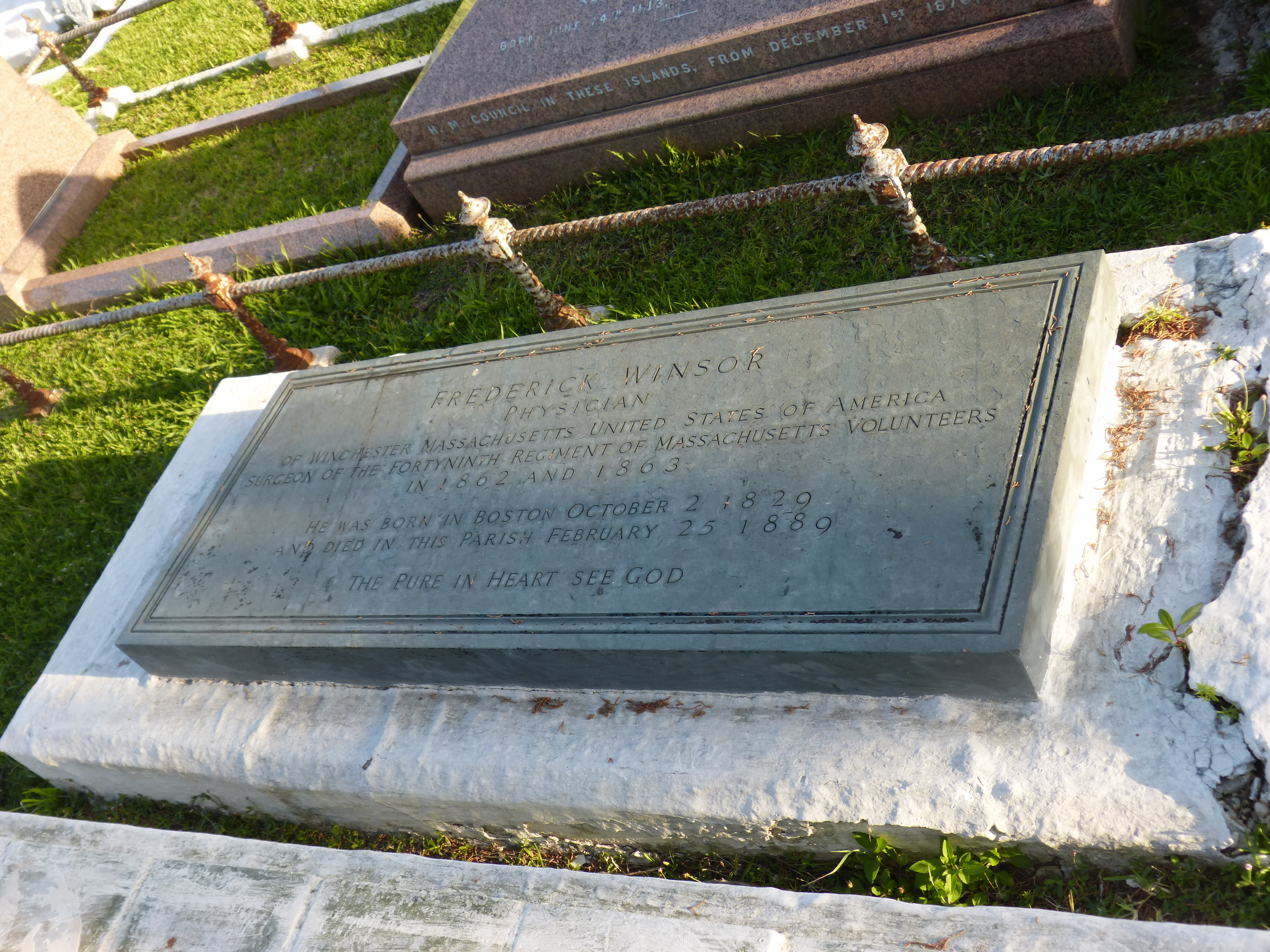 The grave of Surgeon Frederick Winsor (1829, Boston, Massachusetts-1889 Bermuda) of the 49th Regiment Massachusetts Volunteer Infantry at St. John's, the Church of England (since 1978, titled the Anglican Church of Bermuda; an extra-provincial diocese under the Archbishop of Canterbury) parish church for Pembroke, Bermuda.